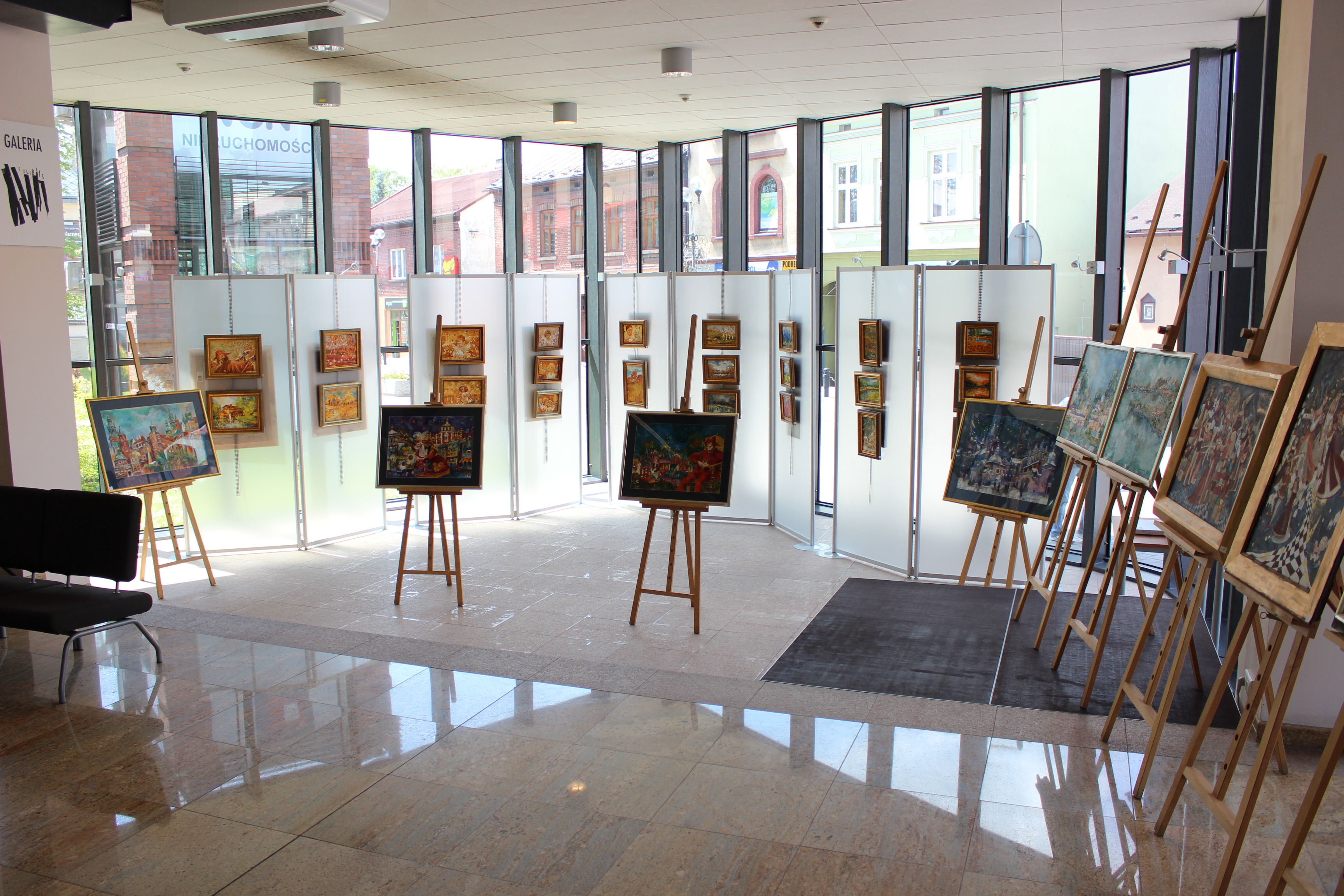 ExLibris gallery in City Public Library in Jaworzno.